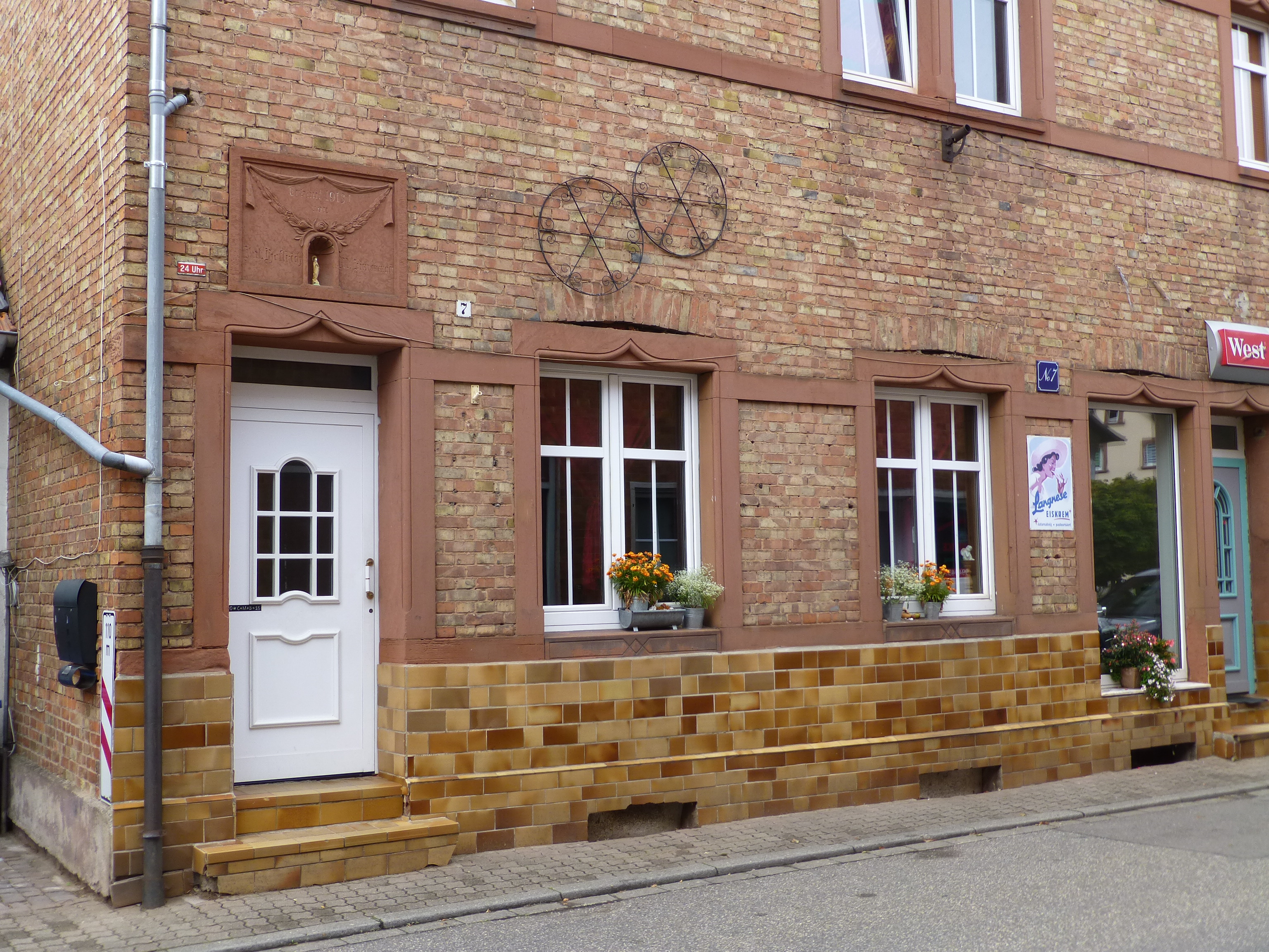 House built in 1913 in MÜNCHWEILER an der Rodalb. Note the red sandstone typical of Palatinate.